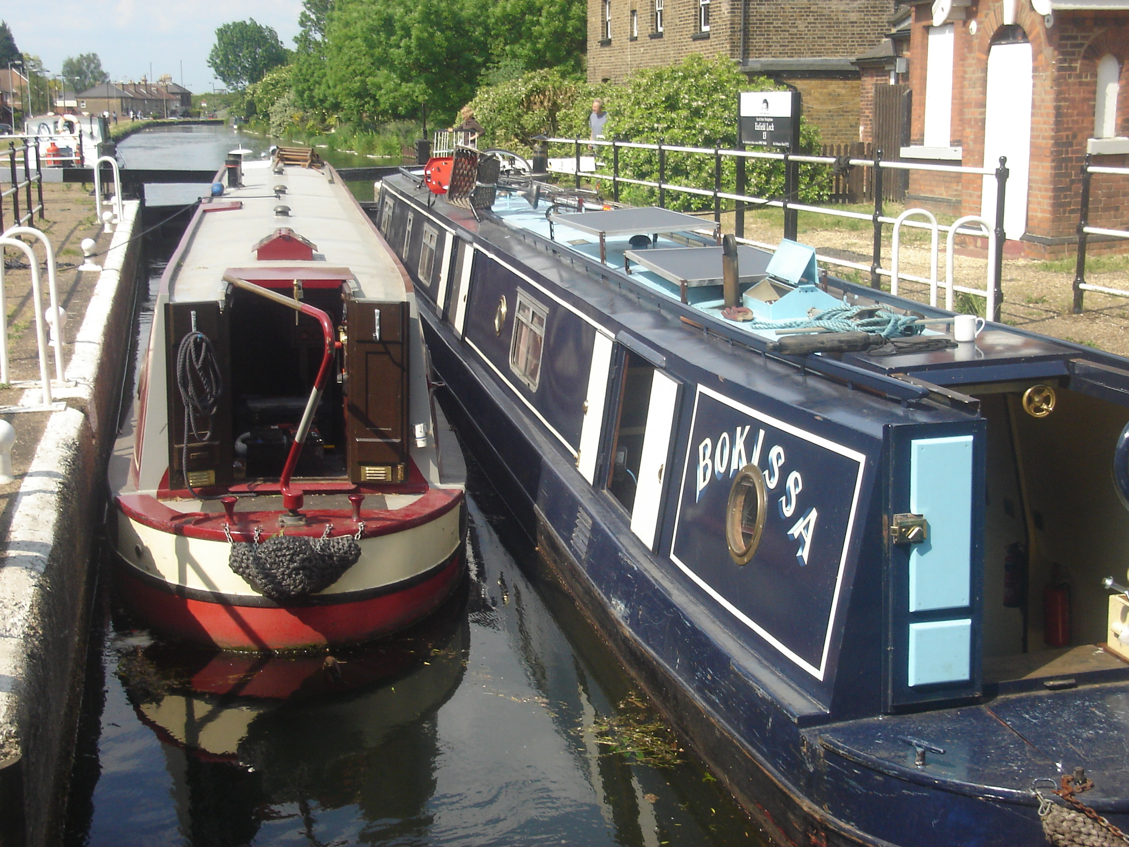 Picture of narrowboats at Enfield Lock